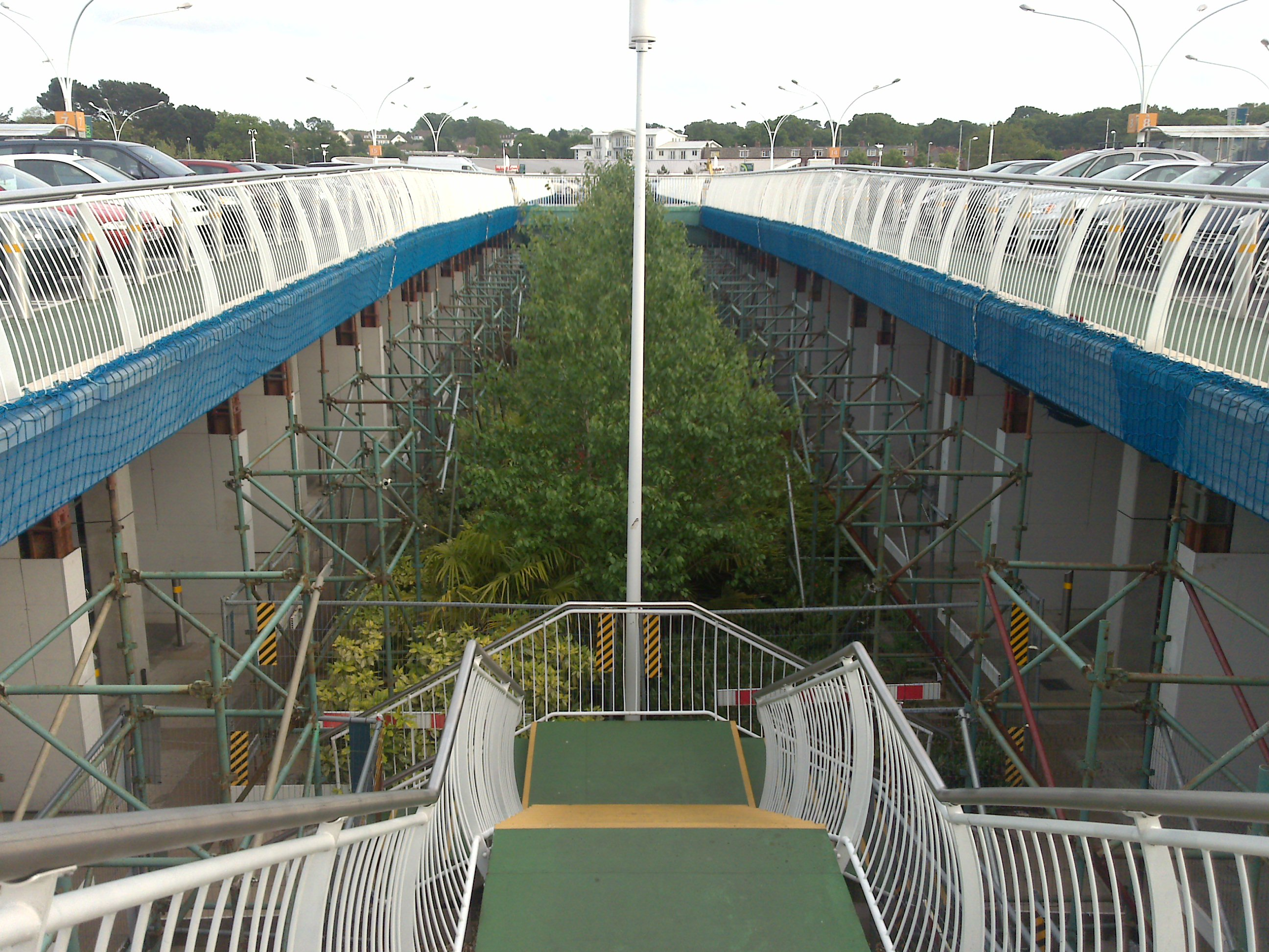 Netting and Props re-enforce the Carpark at Castlepoint Shopping Centre